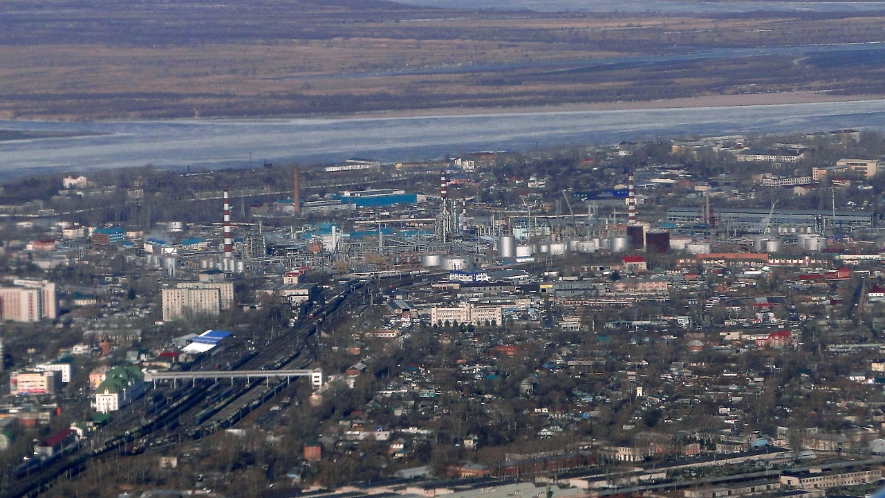 Aerial view of Khabarovsk.